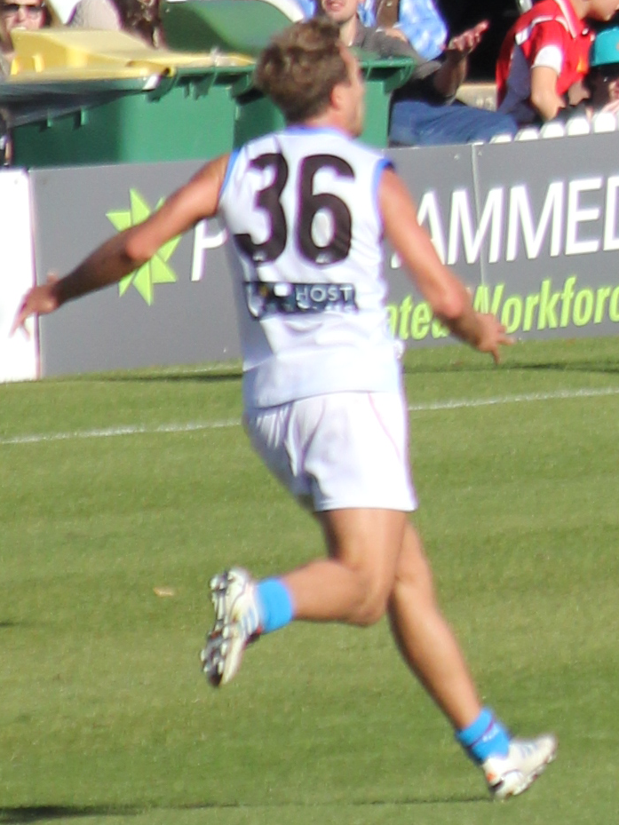 2012 Round 7. GWS Giants vs Gold Coast Suns. Manuka Oval.